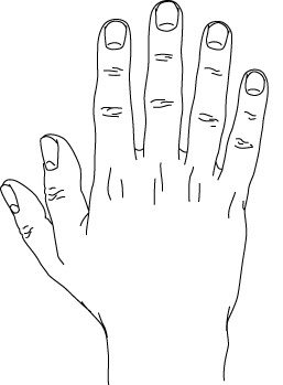 Illustration of an preaxial polydactyly right hand.